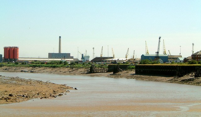 The River Usk side of Newport Docks Looking down the River Usk. The cranes are on the quaysides of Newport Docks and the square building with the tall chiminey is Uskmouth Power Station